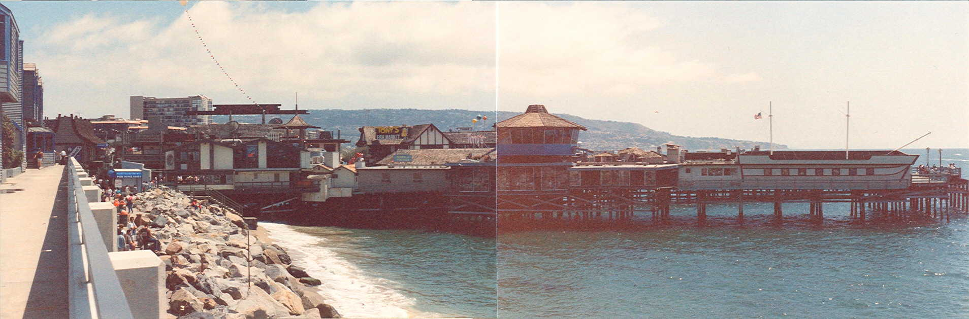 Pier in Redondo Beach, California. Photo by Gyrofrog, July 1991. The image is from two photographs that are fastened together (though this should be obvious).